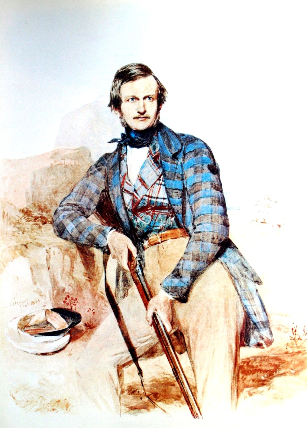 This is a watercolour of William Cornwallis Harris